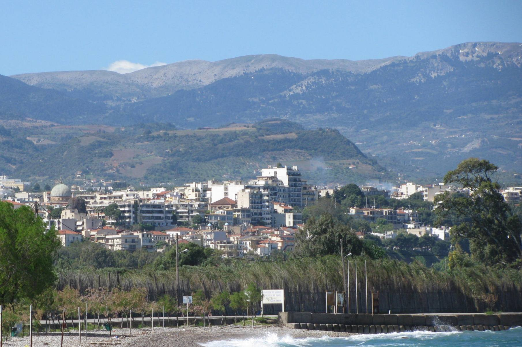 City of Aegio as seen from the municipal beach of Alyki.